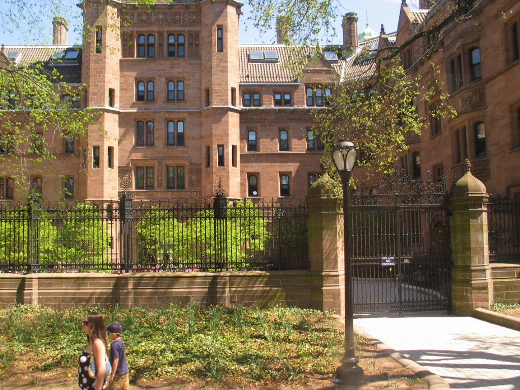 Vanderbilt Hall at Yale university in New Haven, Connecticut, as seen from Chapel Street.